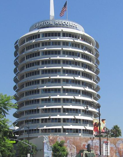 Siège social de Capitol Records sur Hollywood Boulevard